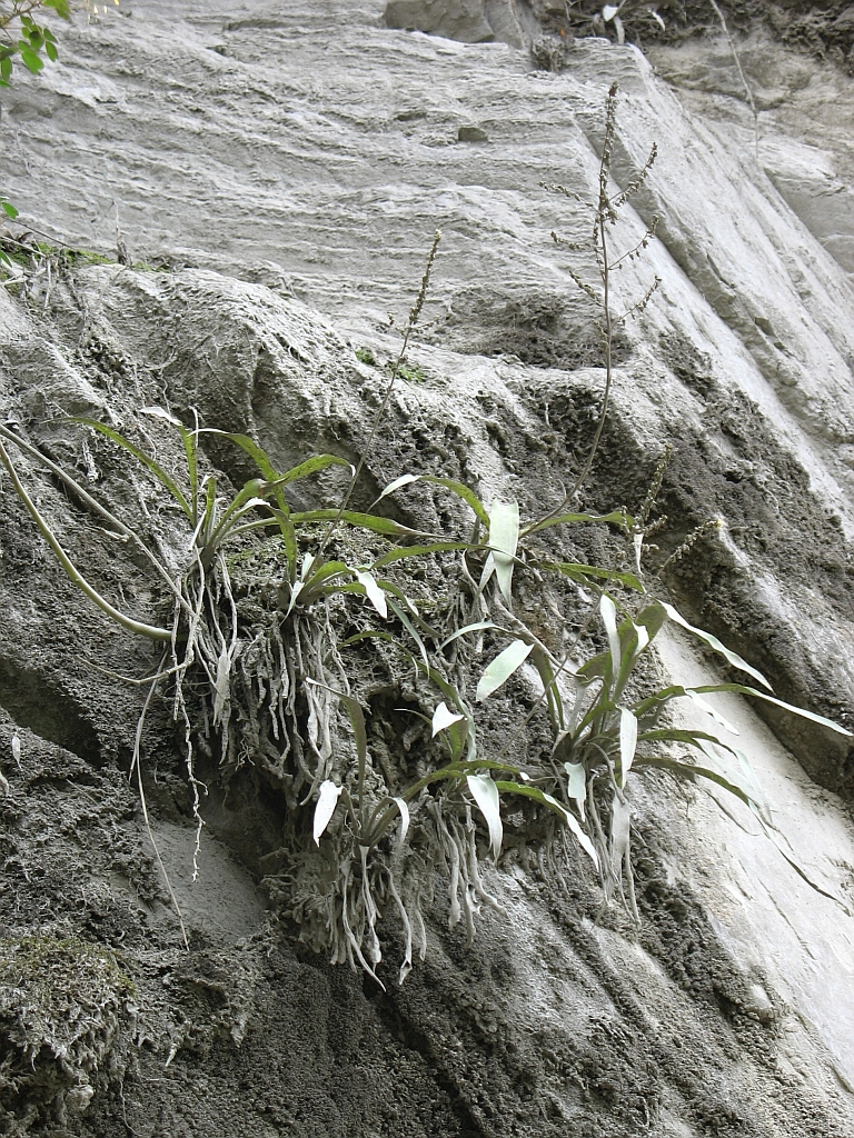 Fosterella petiolata in habitat in Bolivia, exact location unknown.